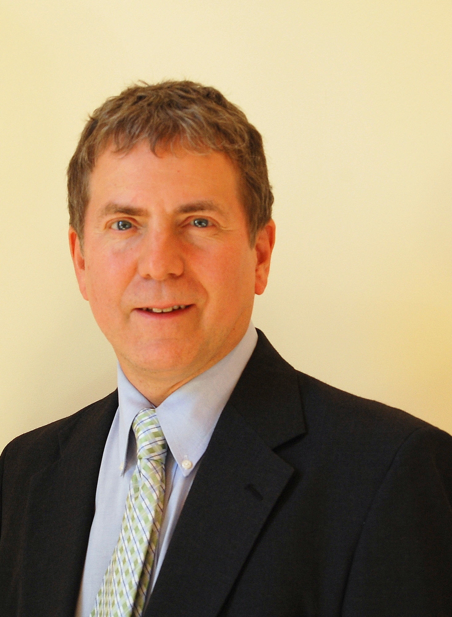 Cropped version of